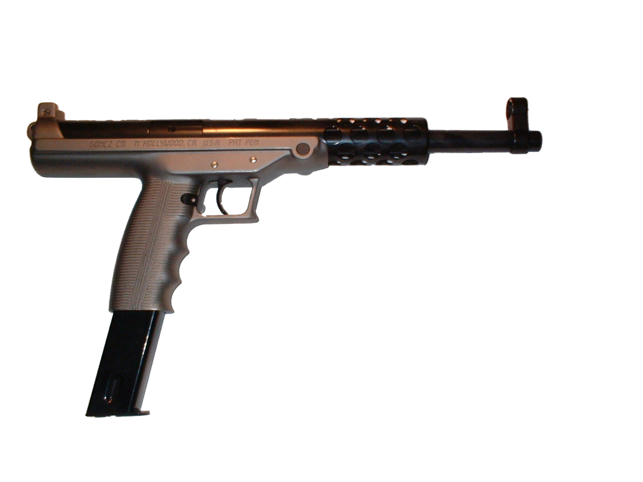 Original Goncz High-Tech; the Claridge pistols and carbines used this design.